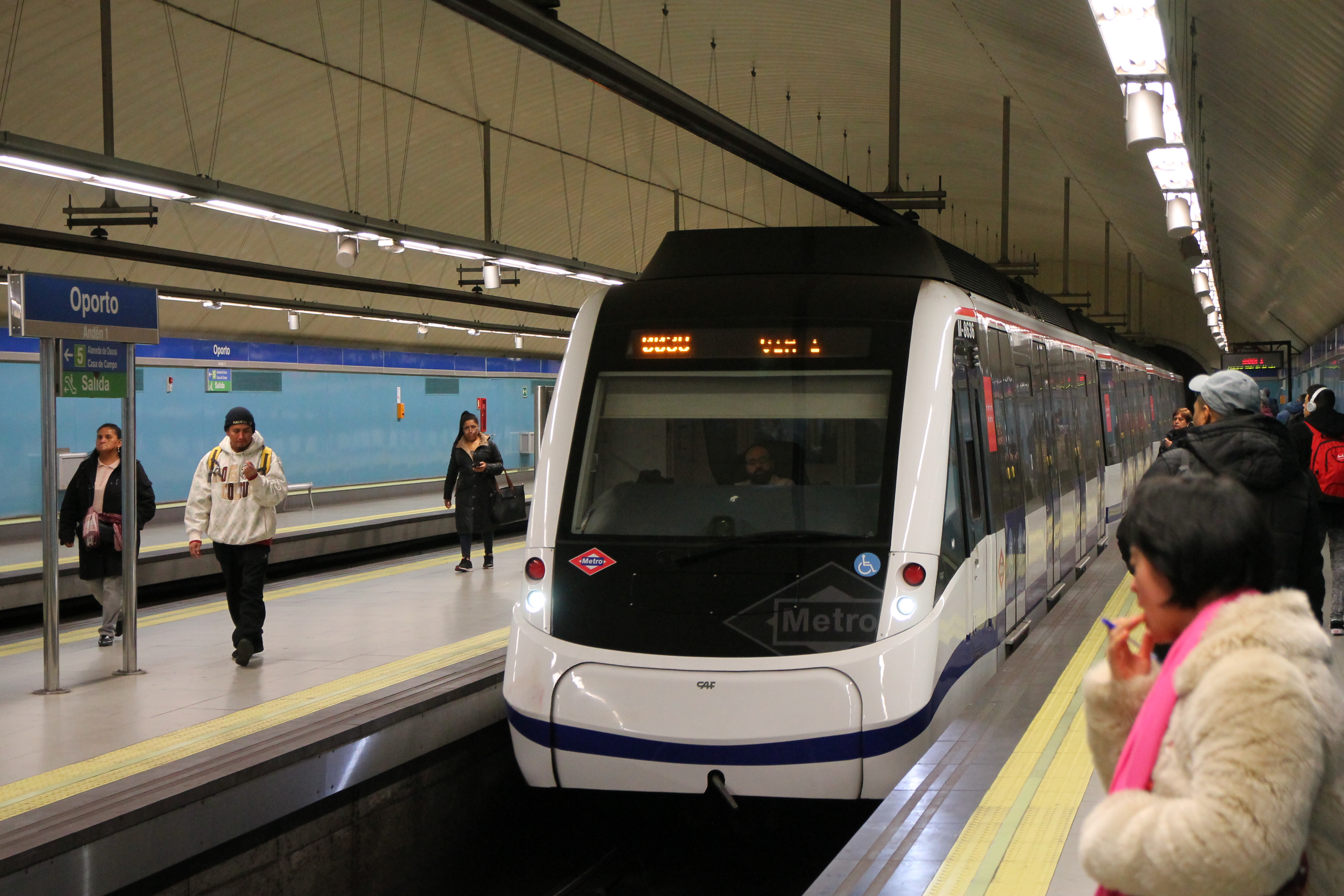 Estación de Oporto